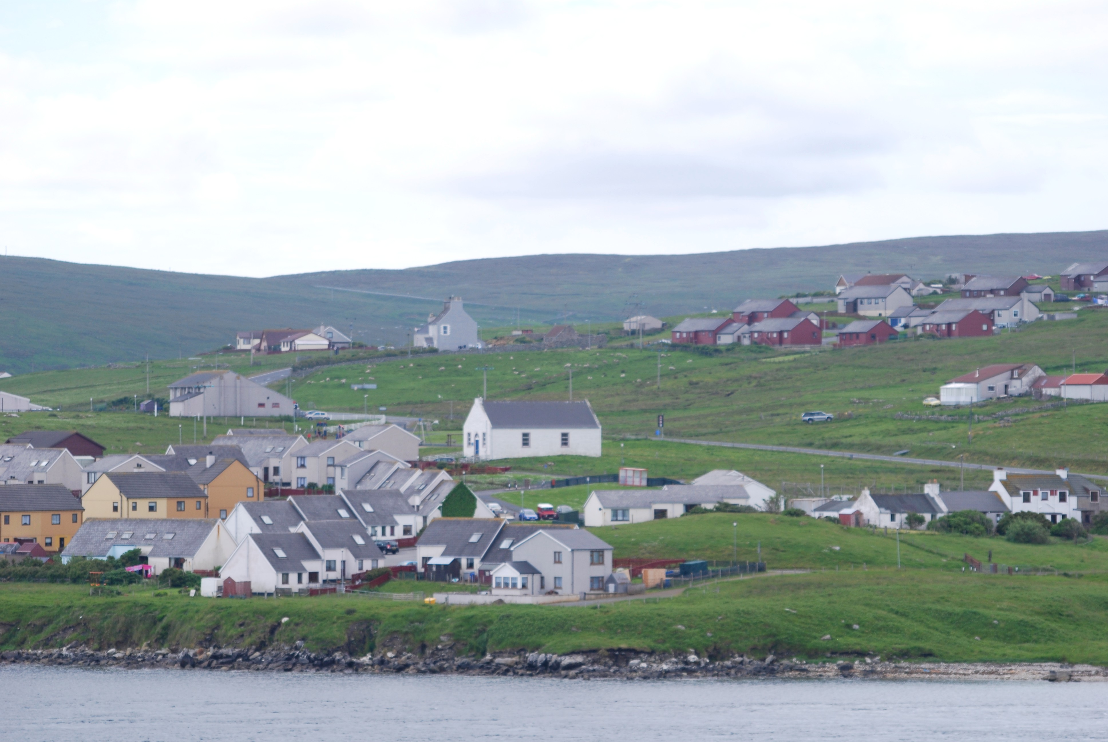 Village Mossbank, Mainland, Shetland